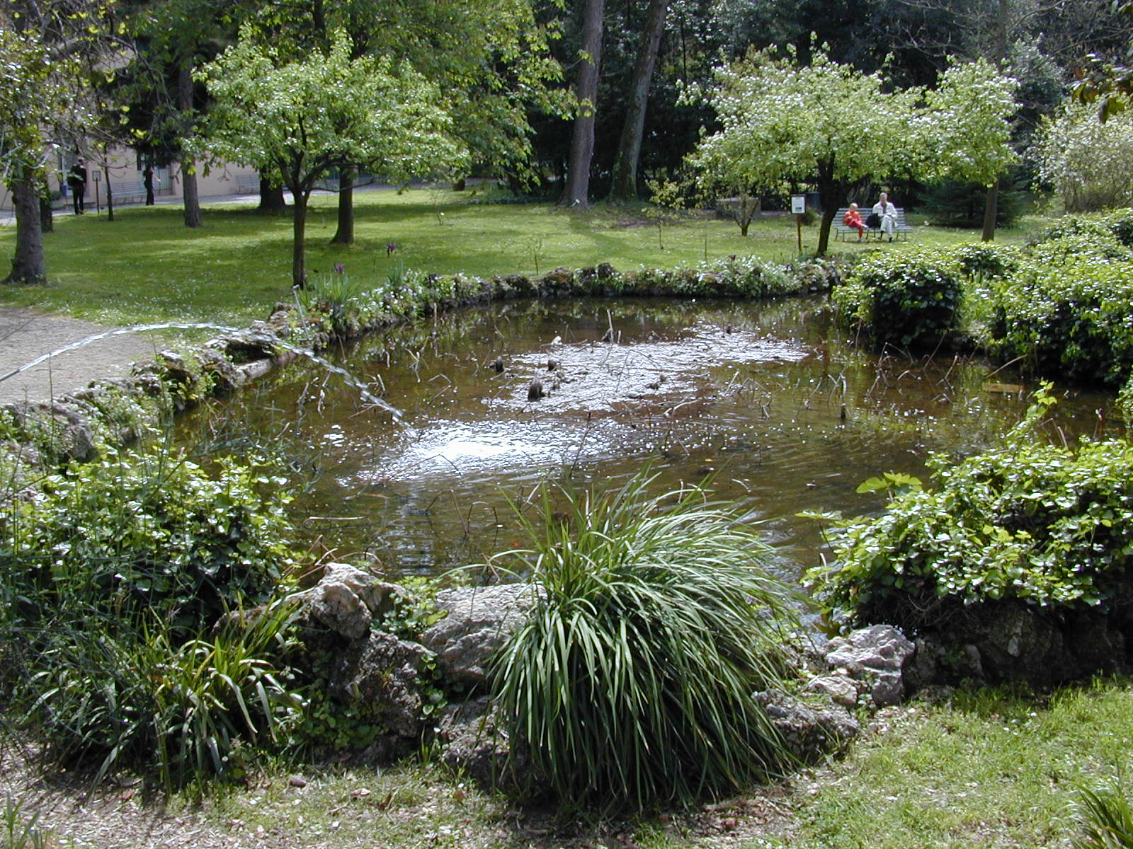 Photo of Pisa botanical garden.